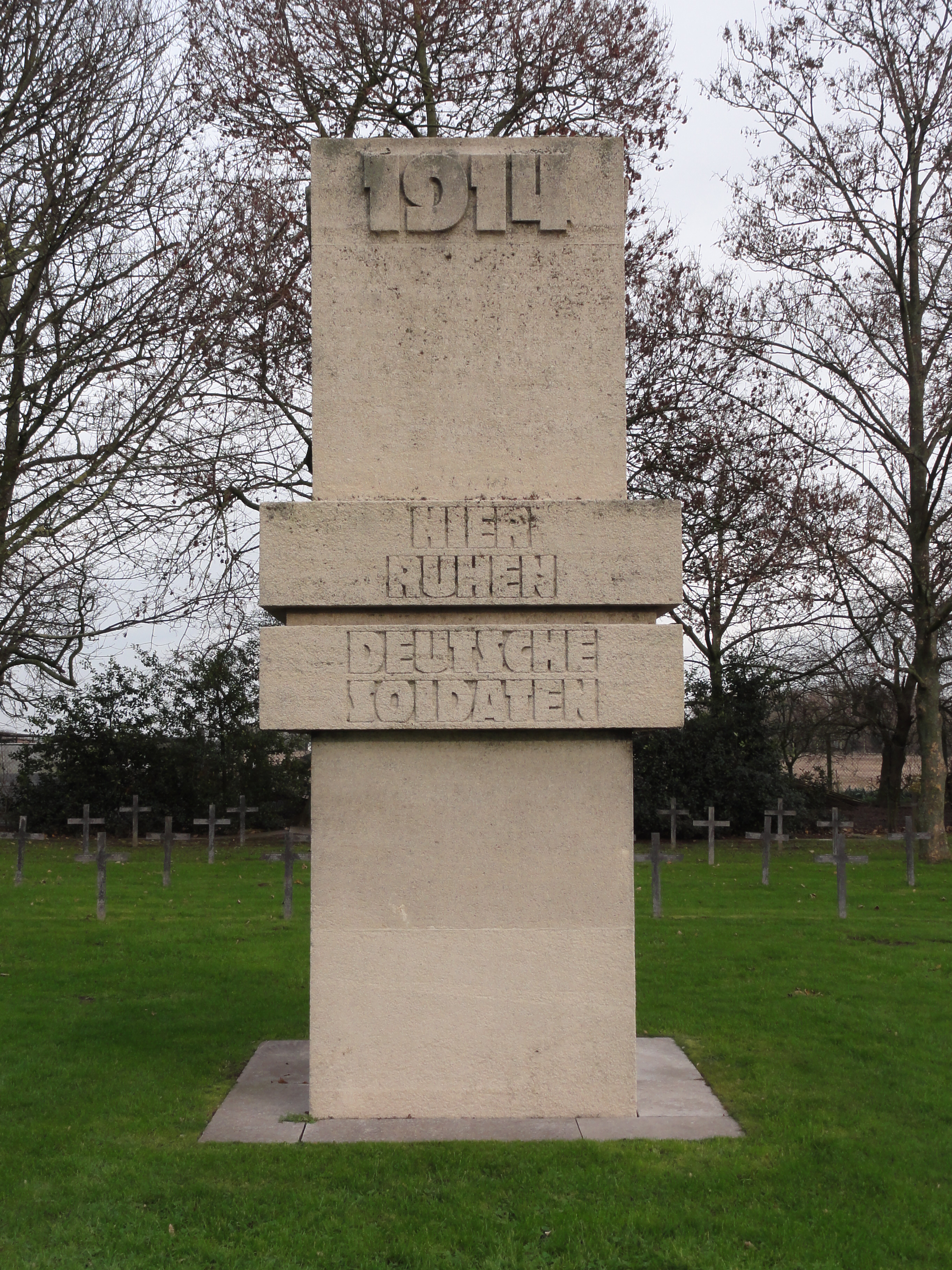 Deutscher Soldatenfriedhof Wambrechies in Wambrechies